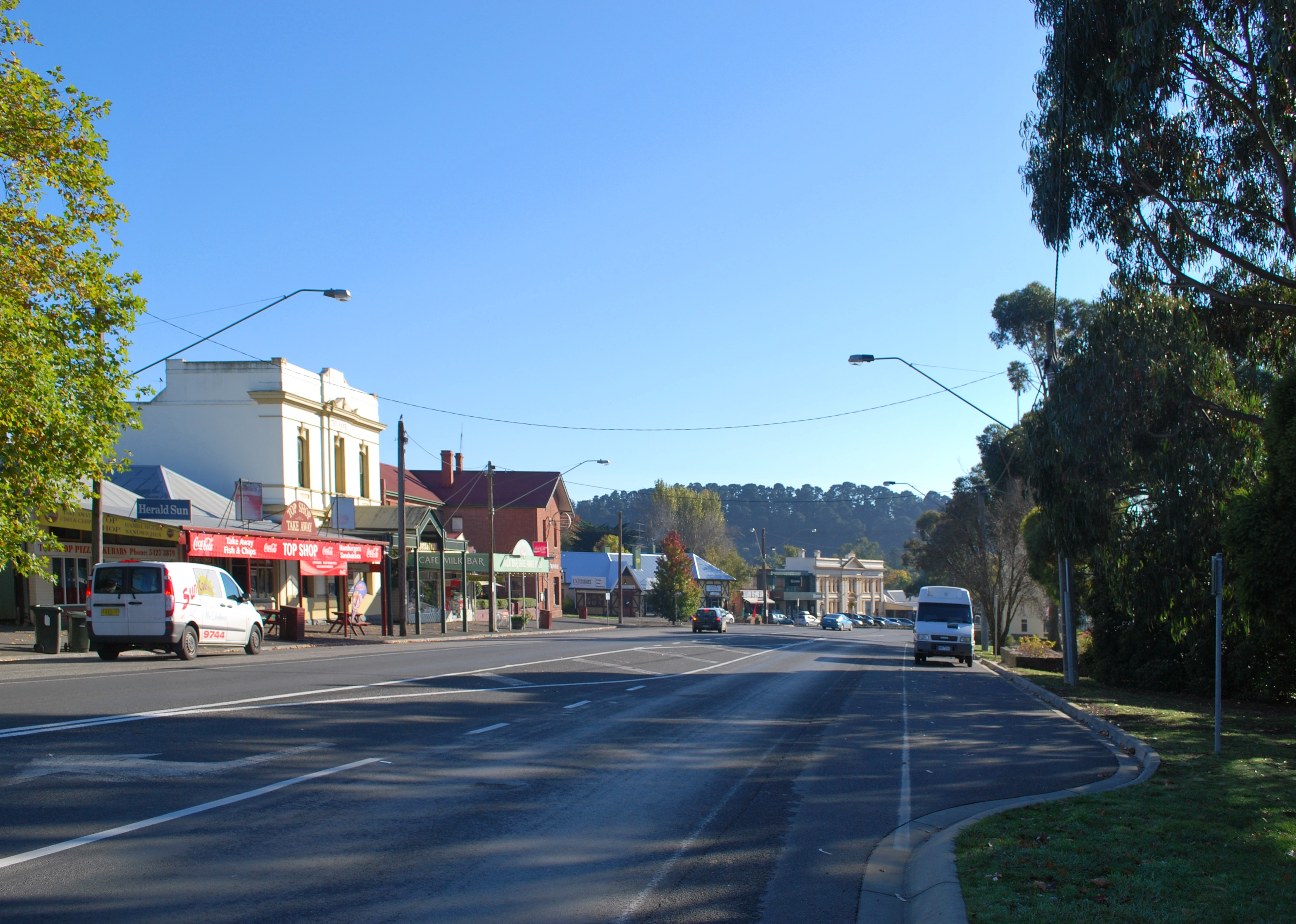 The old Calder Highway at Woodend, Victoria